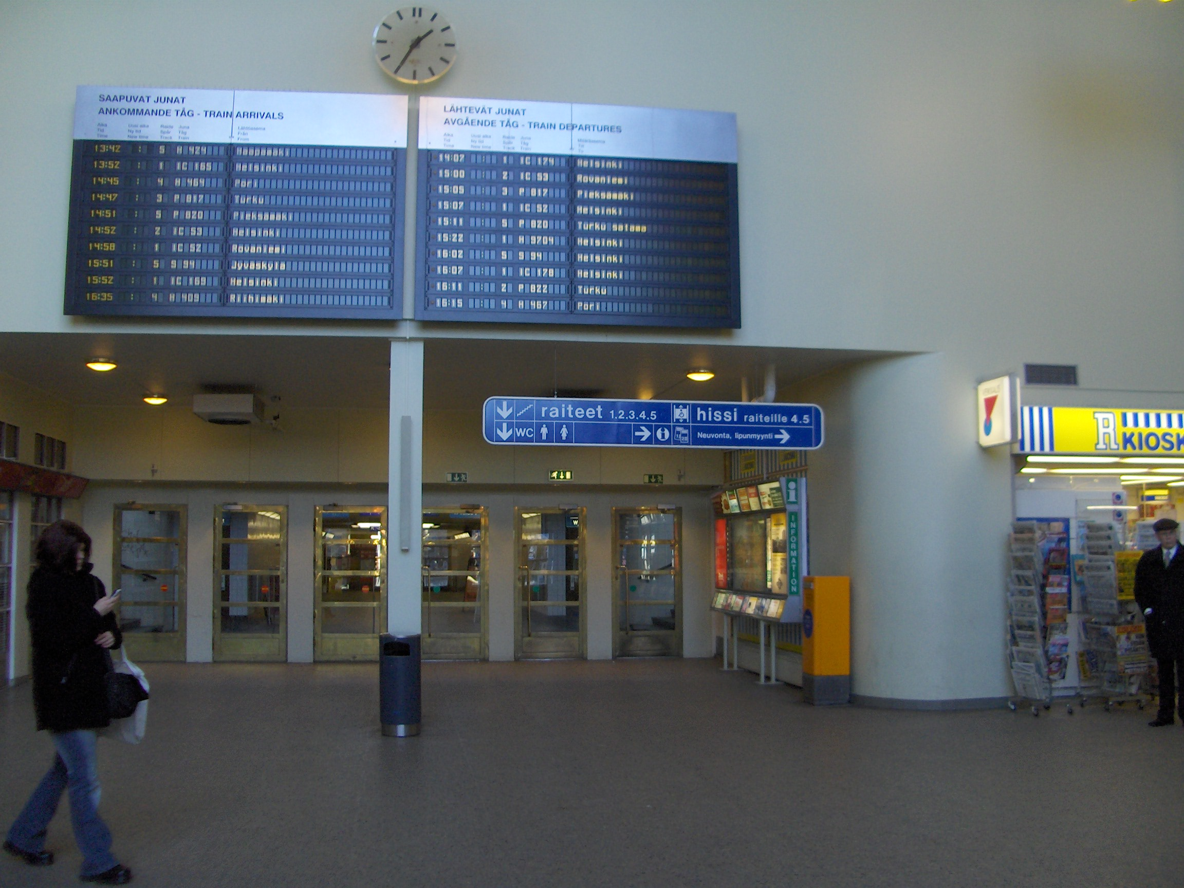 The new arrival and departure boards in the railway station hall of Tampere